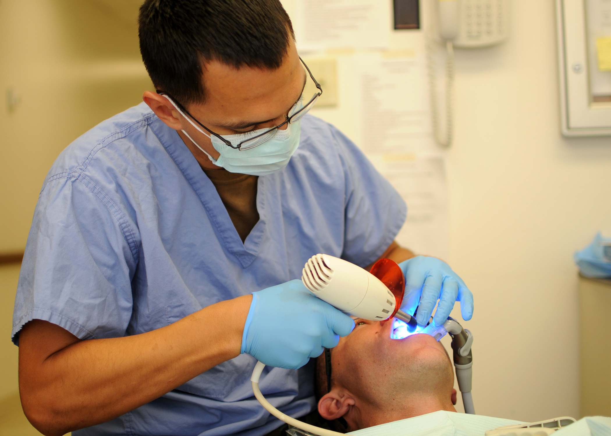 ROTA, Spain (June 3, 2011) Lt. David Stubbs, dental officer assigned to Naval Mobile Construction Battalion (NMCB) 74, cures the composite using a curing light during a composite restoration procedure on Senior Chief Intelligence Specialist William Smith at the Naval Station (NAVSTA) Rota Dental Clinic. NMCB-74 is deployed to Camp Mitchell at NAVSTA Rota, Spain, supporting Commander, Task Force (CTF) 68. (U.S. Navy photo by Mass Communication Specialist 1st Class Ryan G. Wilber/Released)